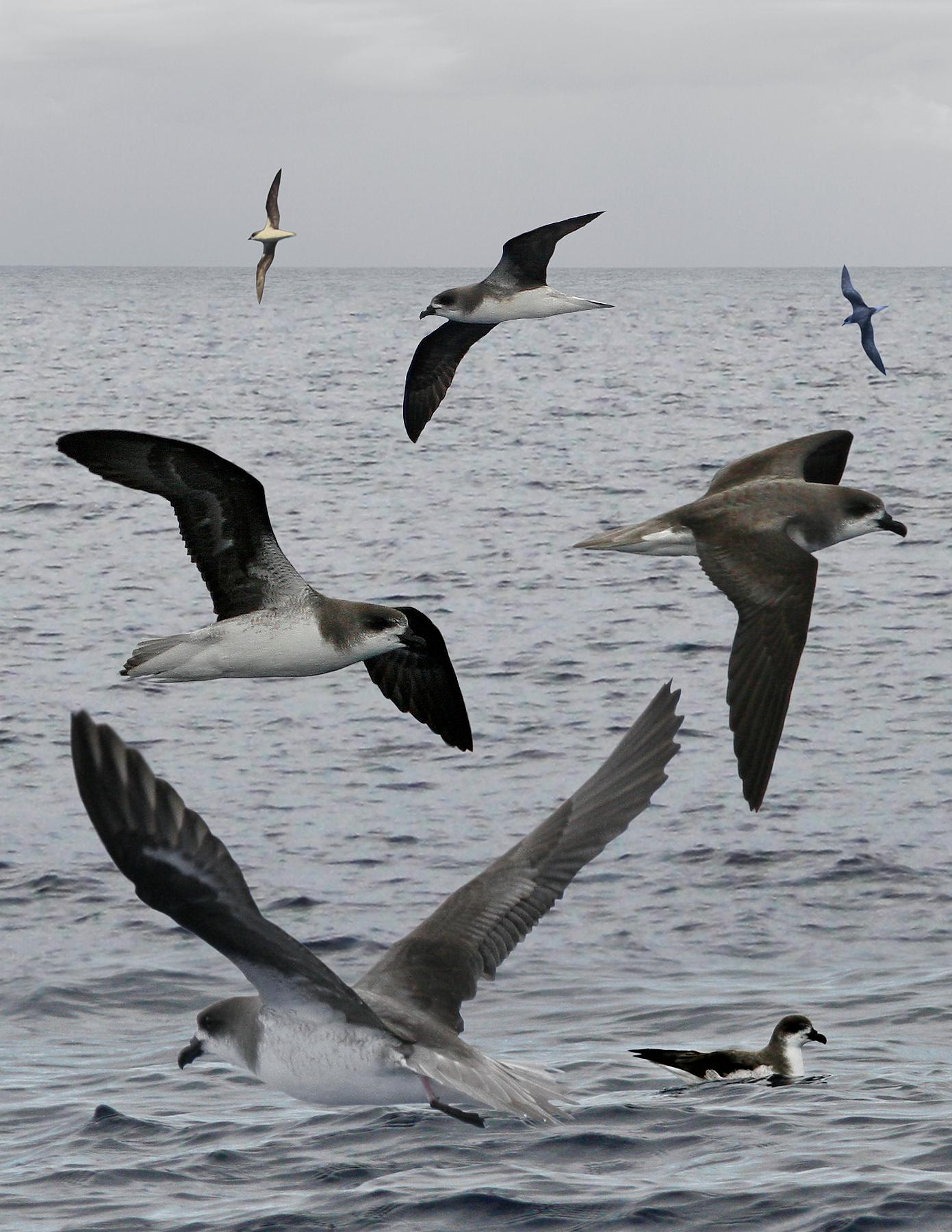 Feas Petrel From The Crossley ID Guide Eastern Birds